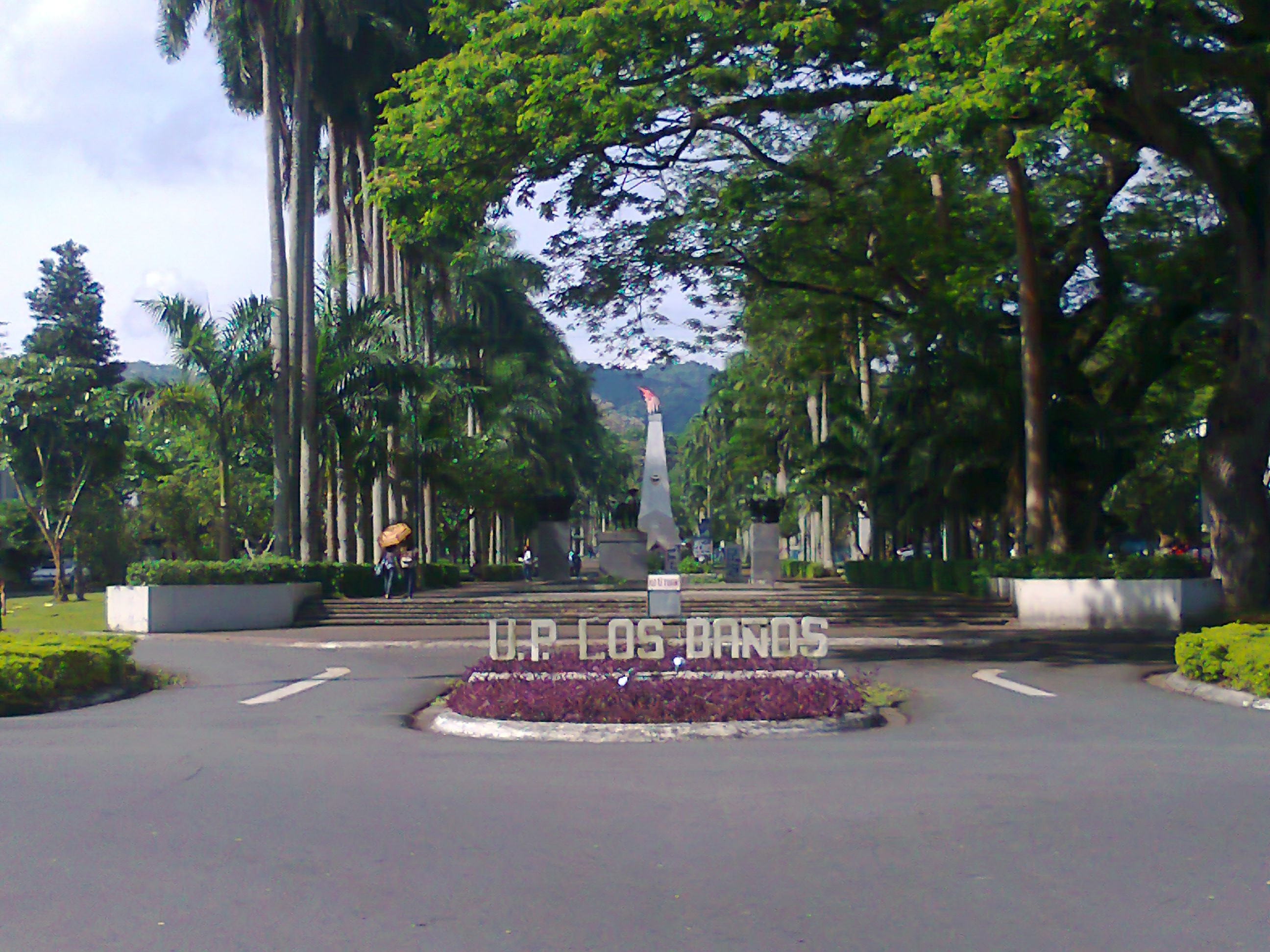 This is the entrance to the University of the Philippines Los Baños.